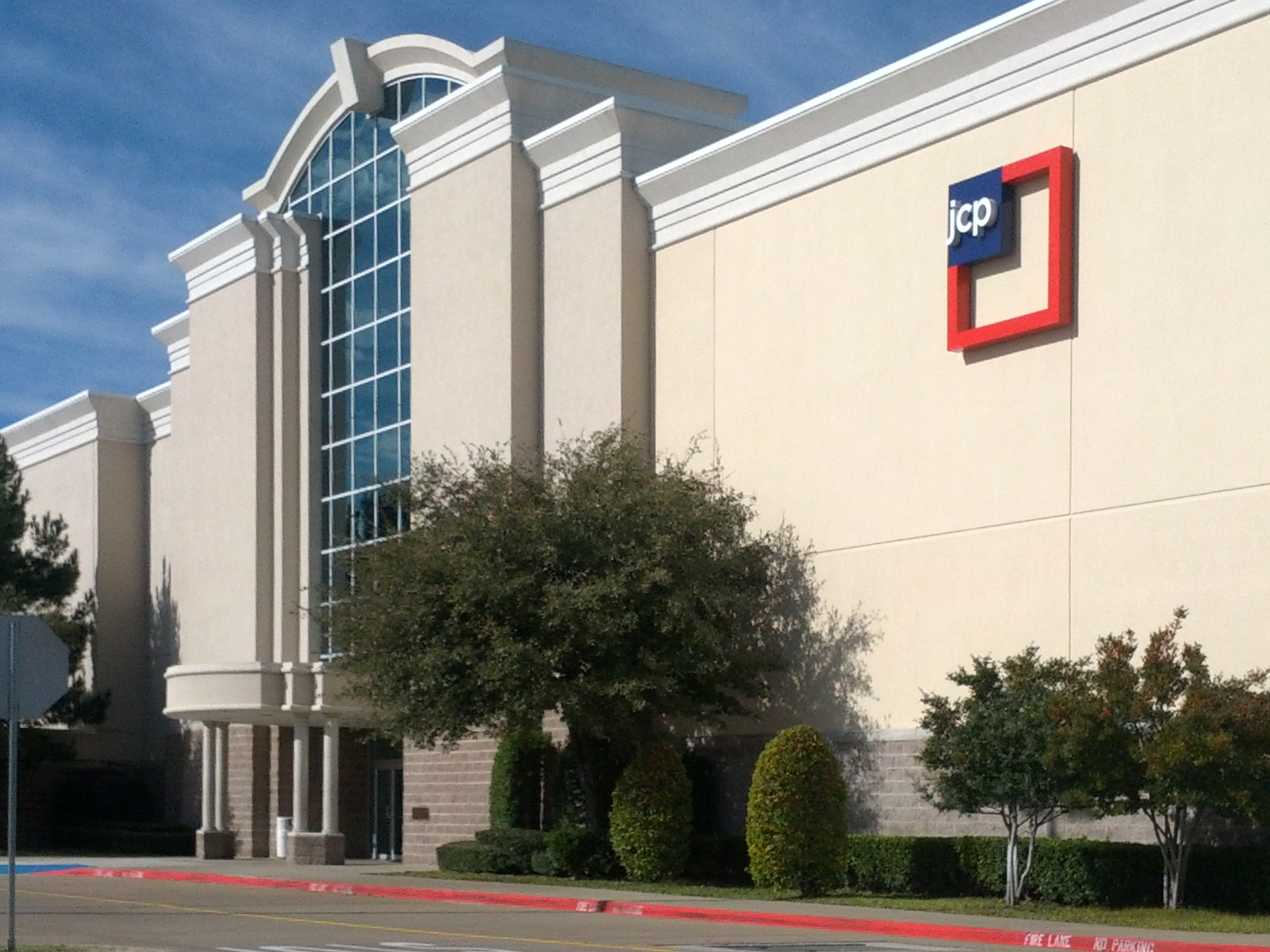 A two-story J. C. Penney at Stonebriar Centre in Frisco, Texas opened in 2000. At the time this photo was taken, this location had just changed the signage to J. C. Penney's new logo.